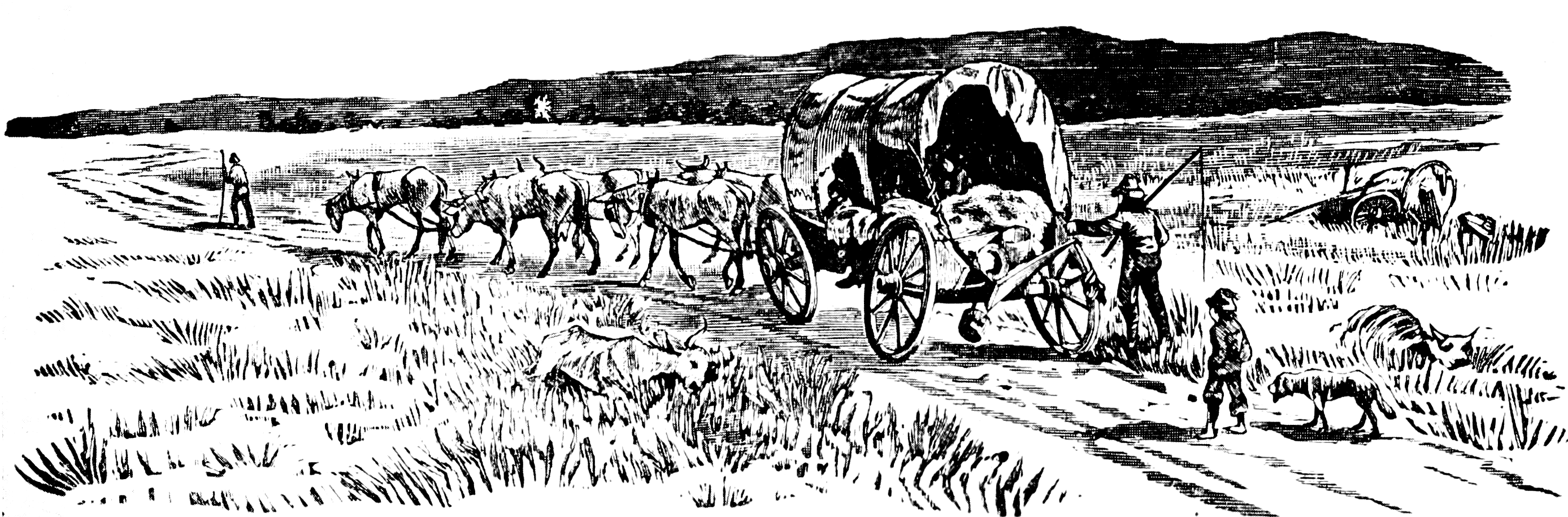 Covered wagon on the Oregon Trail, drawing was used in several early 20th century history books.